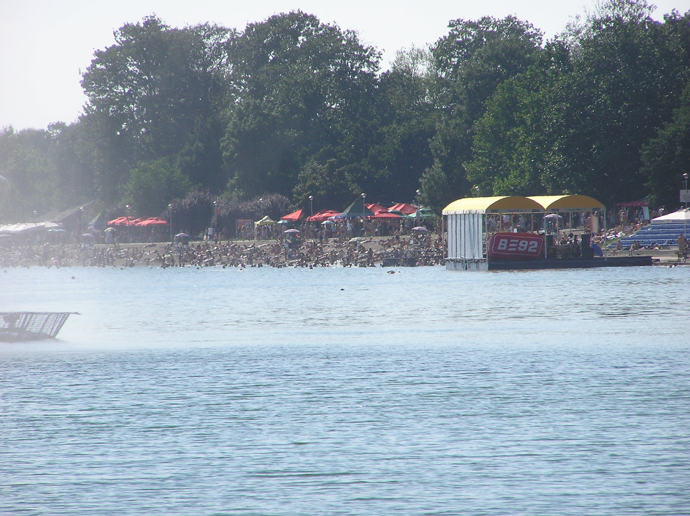 Ada Ciganlija, an island in the Danube river